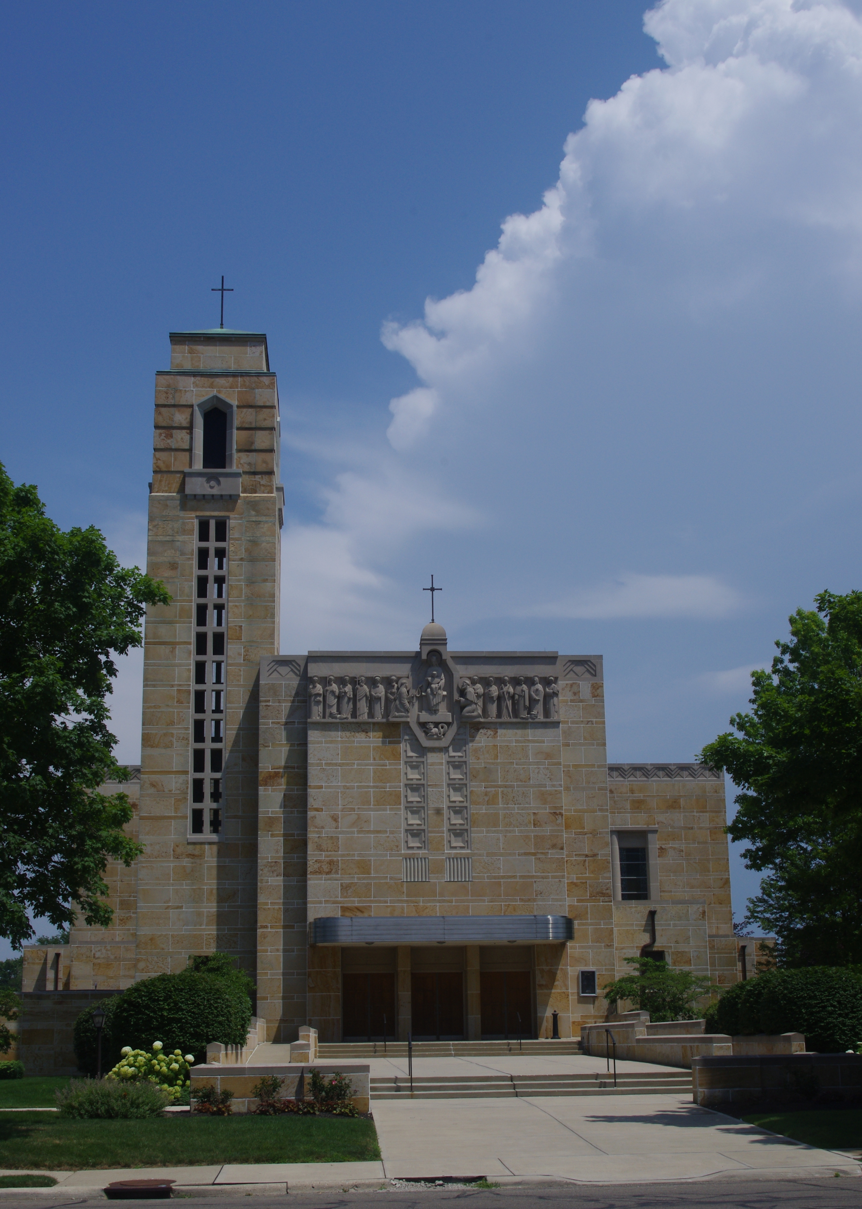 Saint Catharine of Siena Church (Columbus, Ohio) - exterior